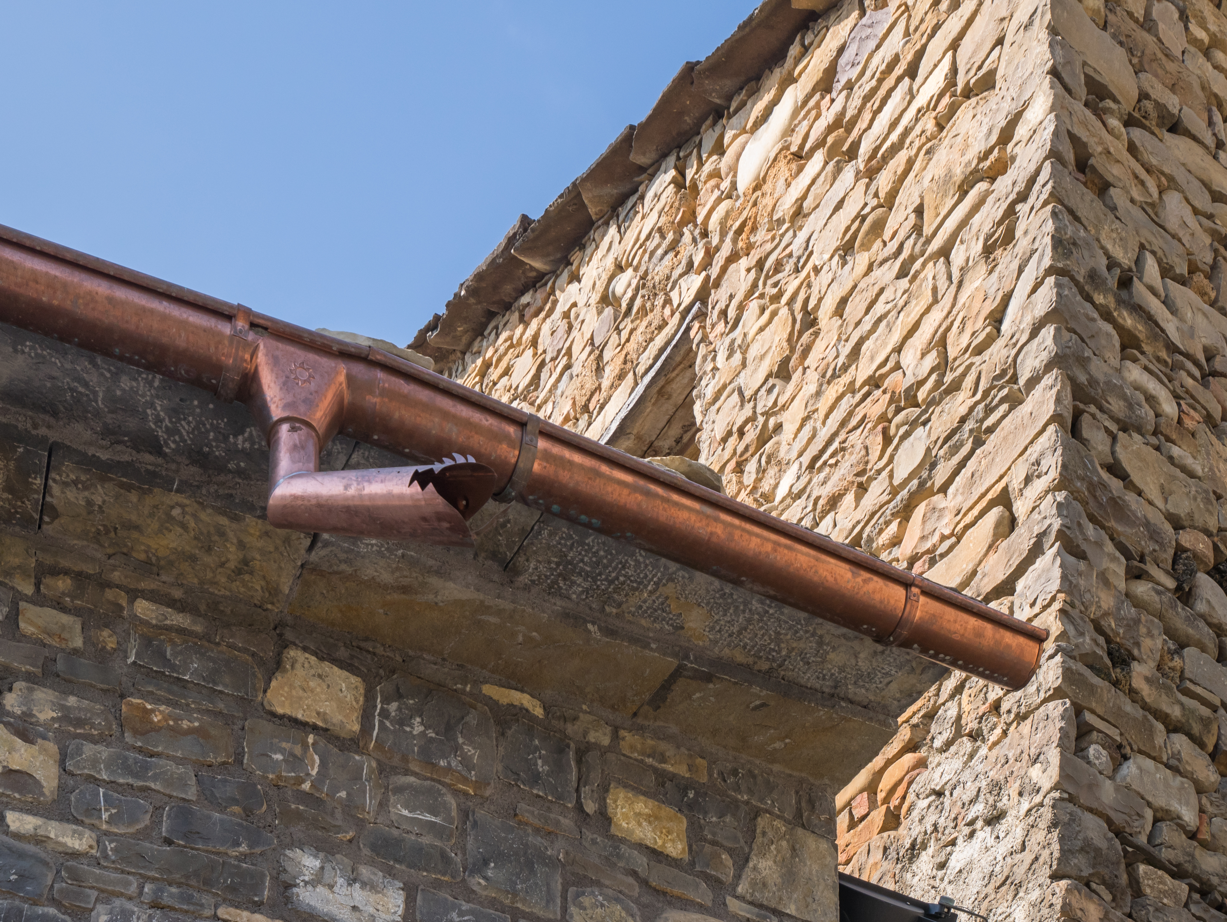 Gargoyle-style drain pipe in Aínsa. Sobrarbe, Huesca, Aragón, Spain